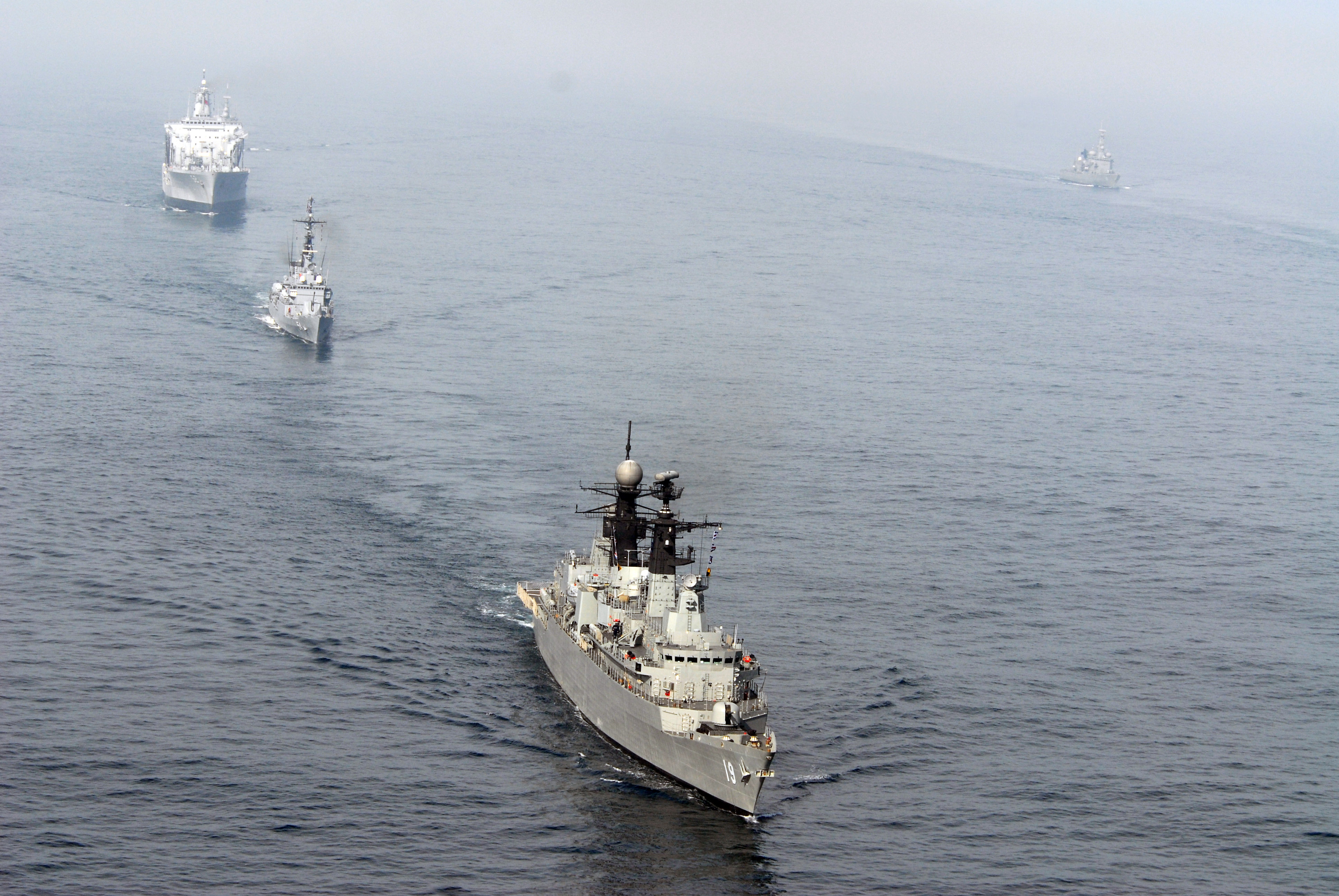 PACIFIC OCEAN (June 29, 2011) The Chilean navy frigate CNS Almirante Williams (FFG 19) and several other ships from the navies of the U.S., Chile, Colombia, Ecuador and Peru move into formation for a photo exercise during the Pacific phase of UNITAS 52. UNITAS is a multinational exercise as part of Southern Seas 2011. (U.S. Navy photo by Mass Communication Specialist 1st Class Steve Smith/Released)